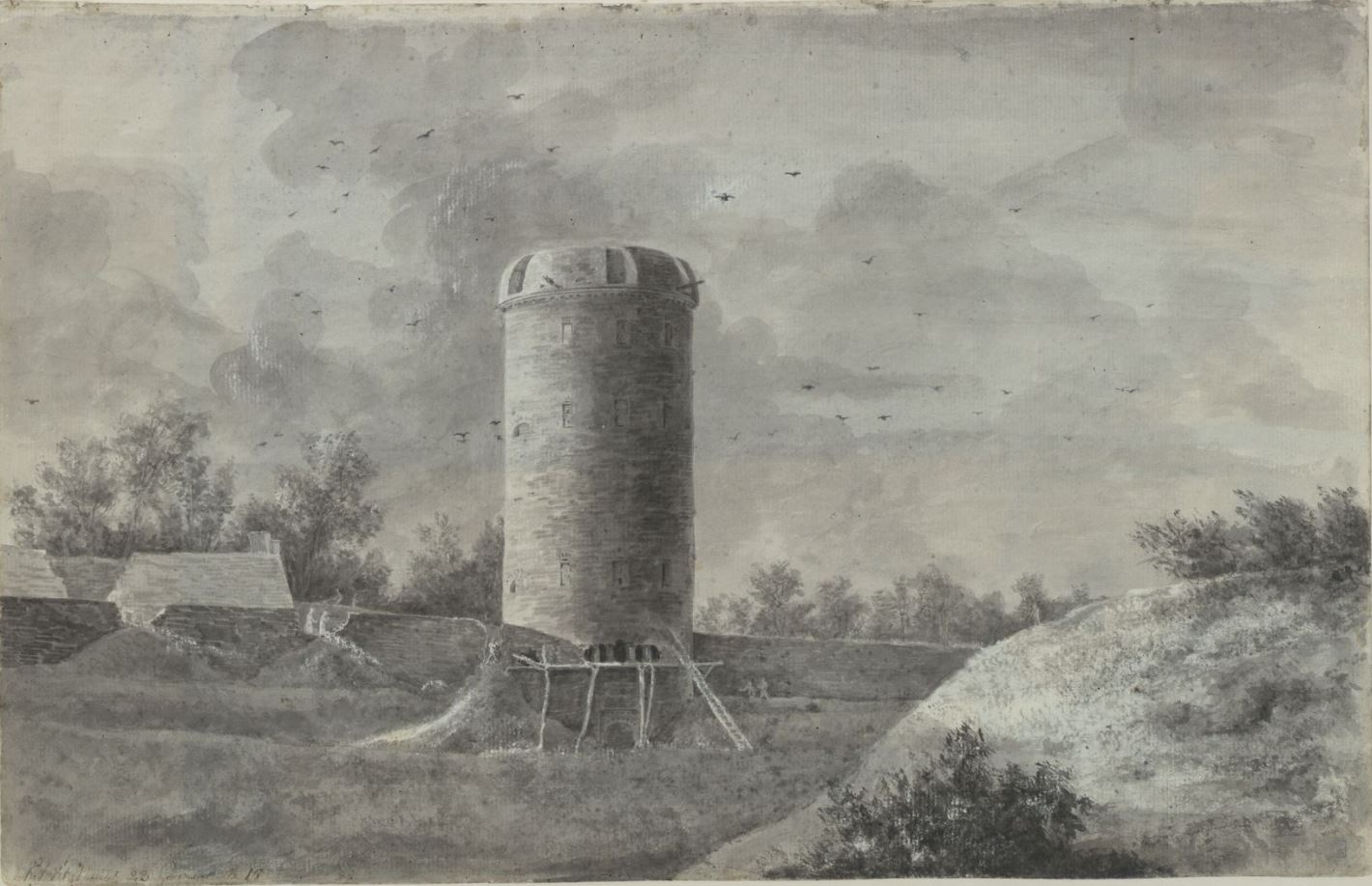 Drawing from the second part of the album 'Vues de Bruxelles et environs' by Paul Vitzthumb, held in the Royal Library of Belgium.